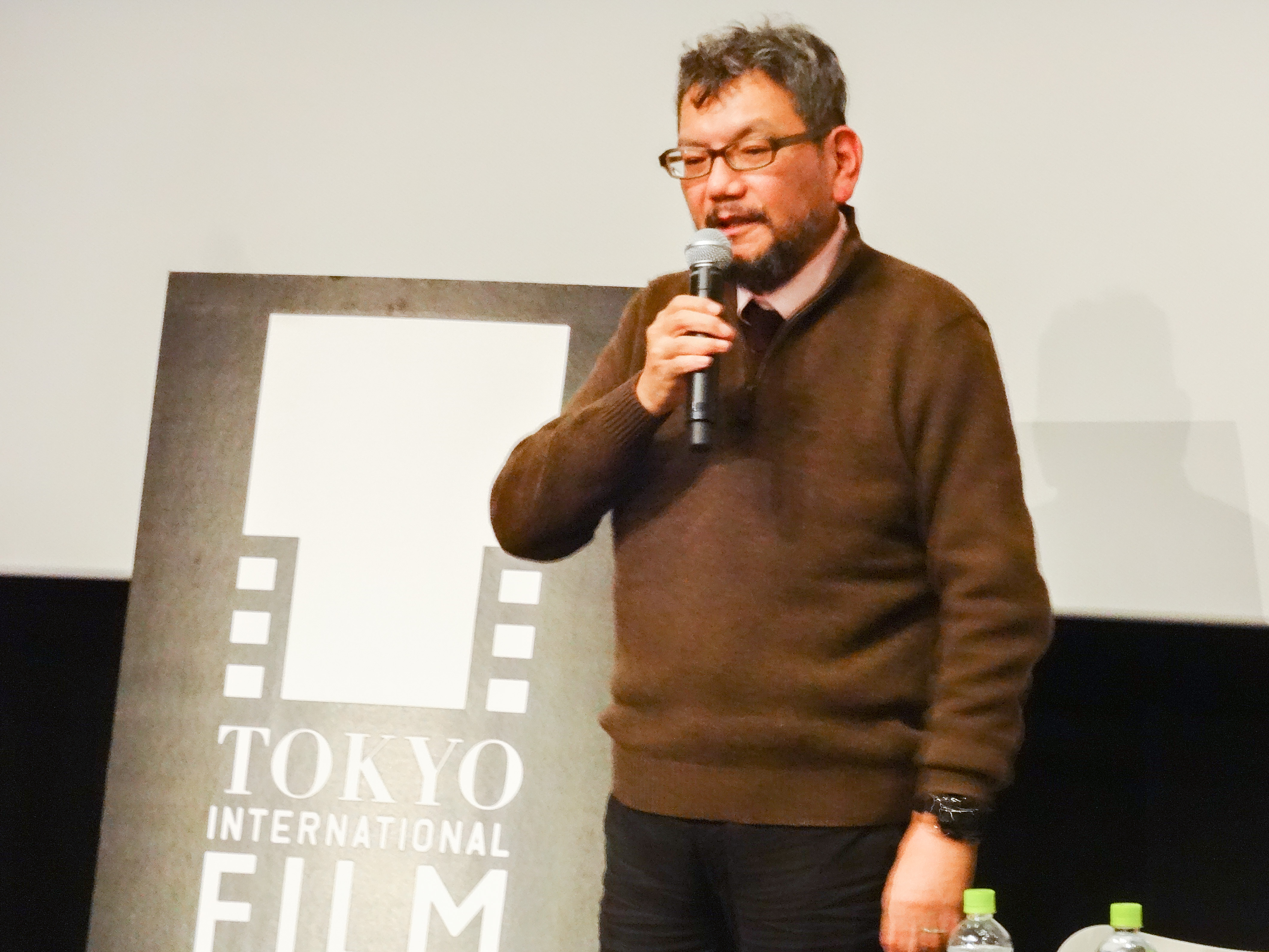 Hideaki Anno, President of the Khara, Inc., participated in "The World of Hideaki Anno", Tokyo International Film Festival, at the TOHO CINEMAS Nihonbashi, Muromachi Furukawa Mitsui Building, in Chūō Ward, Tōkyō Metropolis on October 30, 2014.